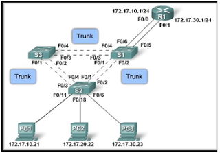 Network